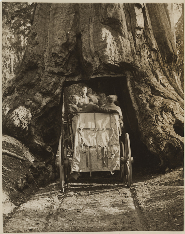 Title: [President Theodore Roosevelt Driving Through the Wawona Tunnel Tree, in Yellowstone National Park] Creator: Underwood & Underwood Date: May 15, 1903 Part of: Doris A. and Lawrence H. Budner Theodore Roosevelt Photograph Collection Place: Mariposa Grove, Yellowstone National Park, California Description: President Theodore Roosevelt, with his party, riding a carriage through the Wawona Tunnel Tree during his 1903 visit to Yellowstone National Park. The man to the left of Roosevelt is William Loeb, Jr. (Presidential Secretary) Physical Description: 1 photographic print: gelatin silver; 26 x 20.5 cm File: ag1984_0324_03_10r_driving_opt.jpg Rights: Please cite the Doris A. and Lawrence H. Budner Theodore Roosevelt Collection, DeGolyer Library, Southern Methodist University when using this file. A high-resolution version of this file may be obtained for a fee. For details see the web page. For other information, . For more information and to view the image in high resolution, View the Doris A. and Lawrence H. Budner Collection on Theodore Roosevelt collection